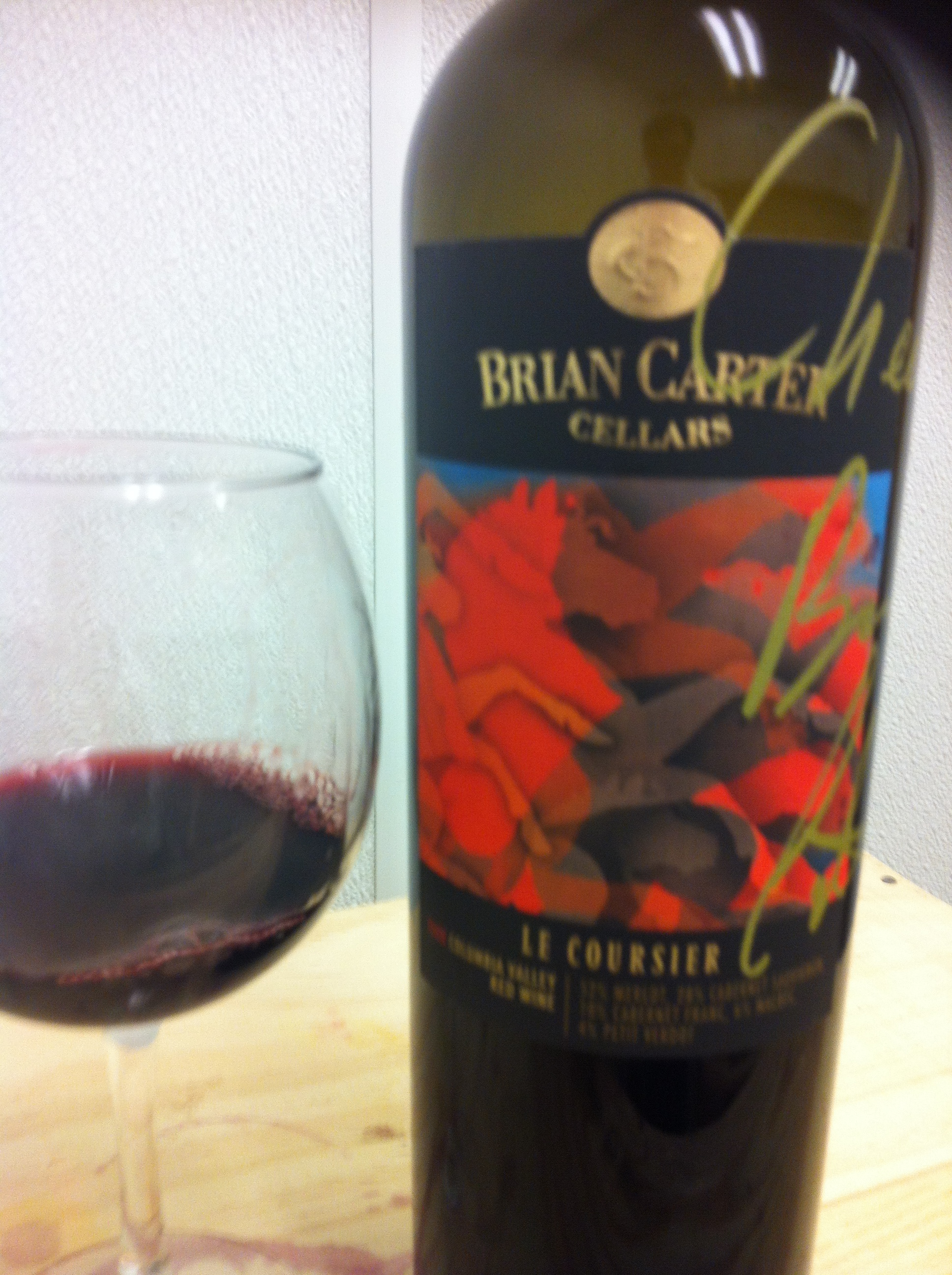 "Right-bank Bordeaux" style blend from the Washington wine region of the Columbia Valley